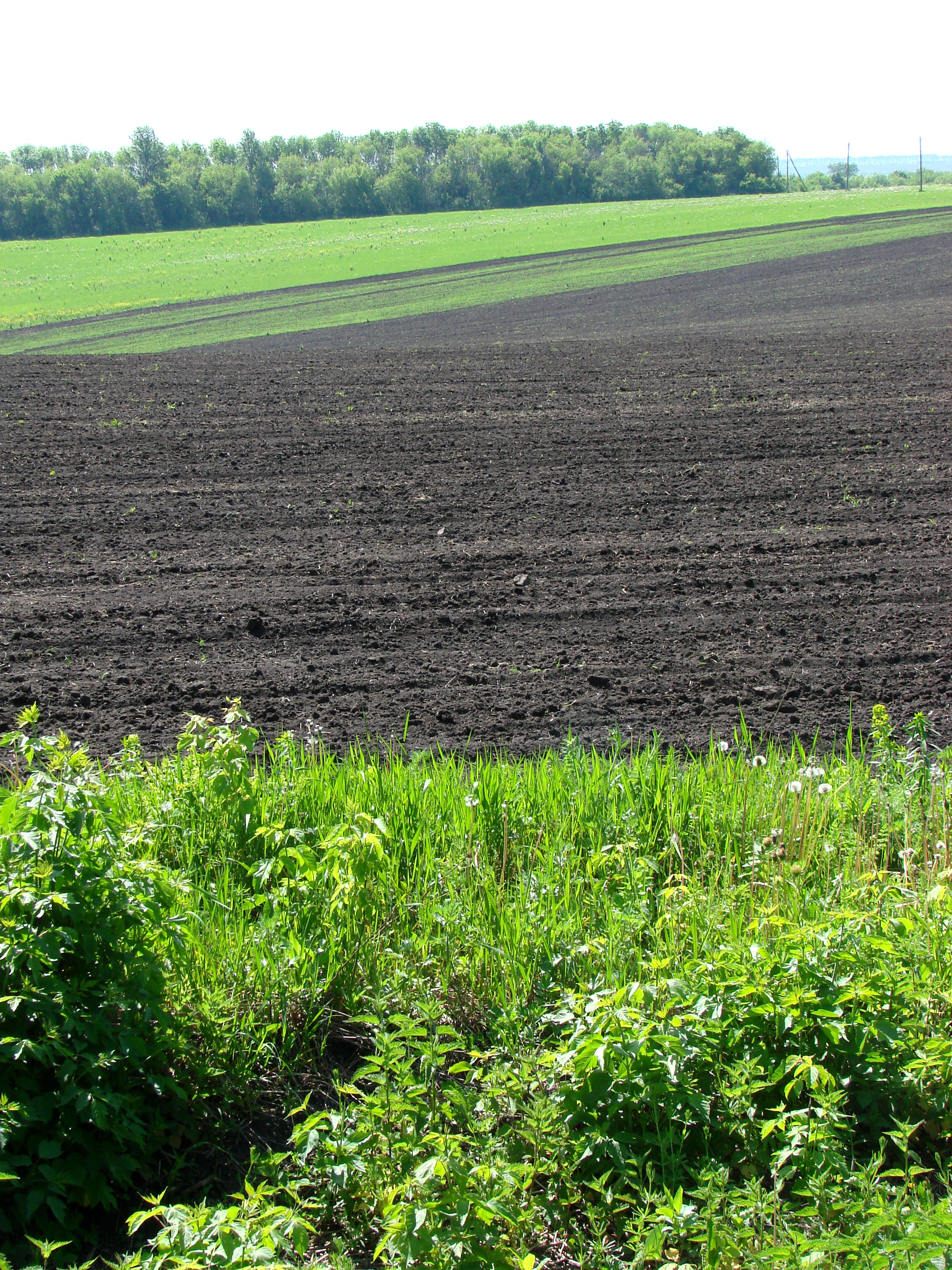 Black earth outside Prokhorovka, Belgorod Oblast, Central Federal District, Russia.